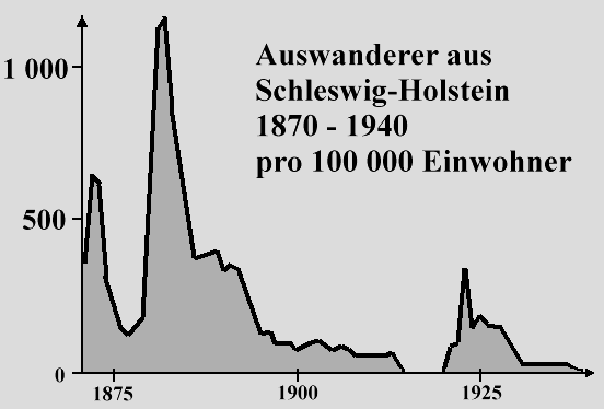 chart showing emigration from the german state of schleswig-holstein 1870-1940, language german